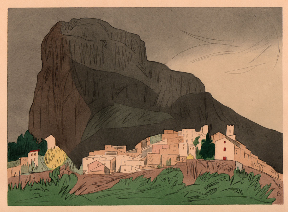 St. JEANNET, French Riviera Villages, aquatint by American woman artist Augusta Rathbone (November 30, 1897-March 19, 1990)